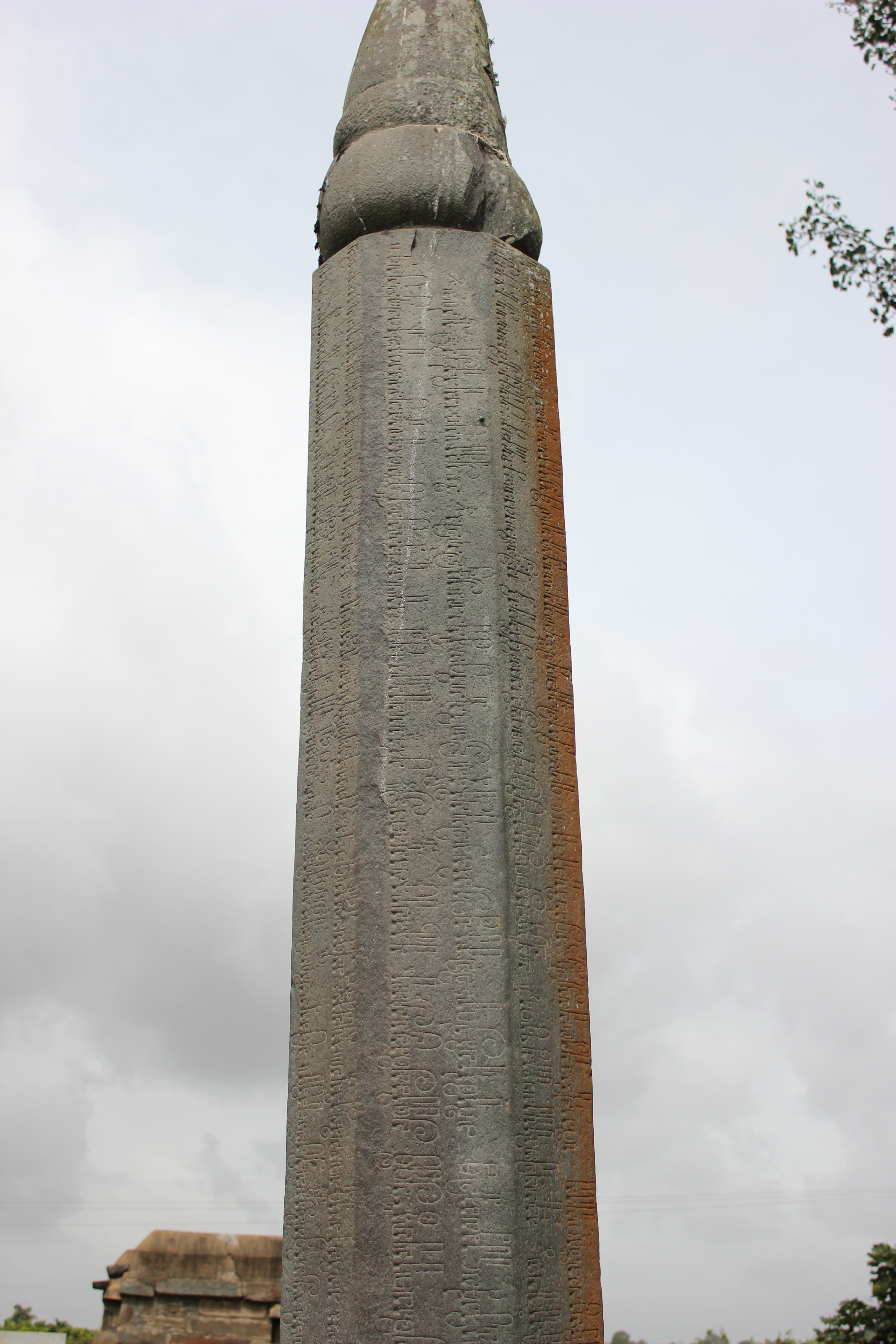 This photograph of the famous Talagunda pillar inscription written in Sanskrit language, which gives a full account of the Kadamba dynastic lineage and their rise to power, was taken by me at the Praneshvara temple in Talagunda, Shimoga district, Karnataka state, India.